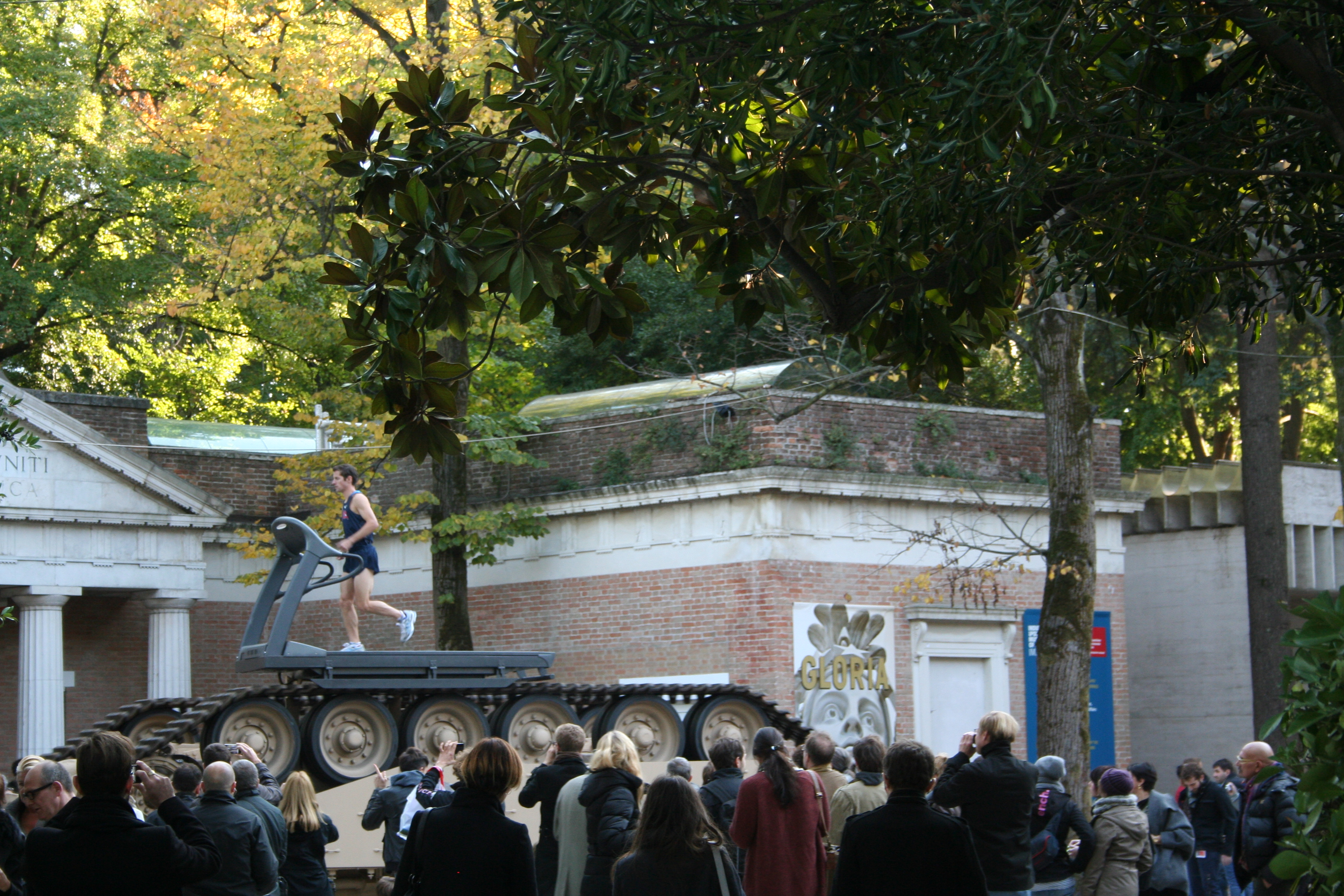 At Giardini, Biennale, near the British pavilion, 2011